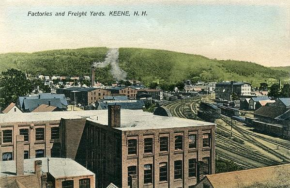 Factories and Freight Yards, Keene, New Hampshire.